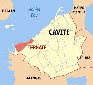 Map of Cavite showing the location of Ternate